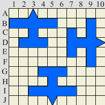 Print screen of the Avioane (Airplanes) board where three airplanes are strategically placed.